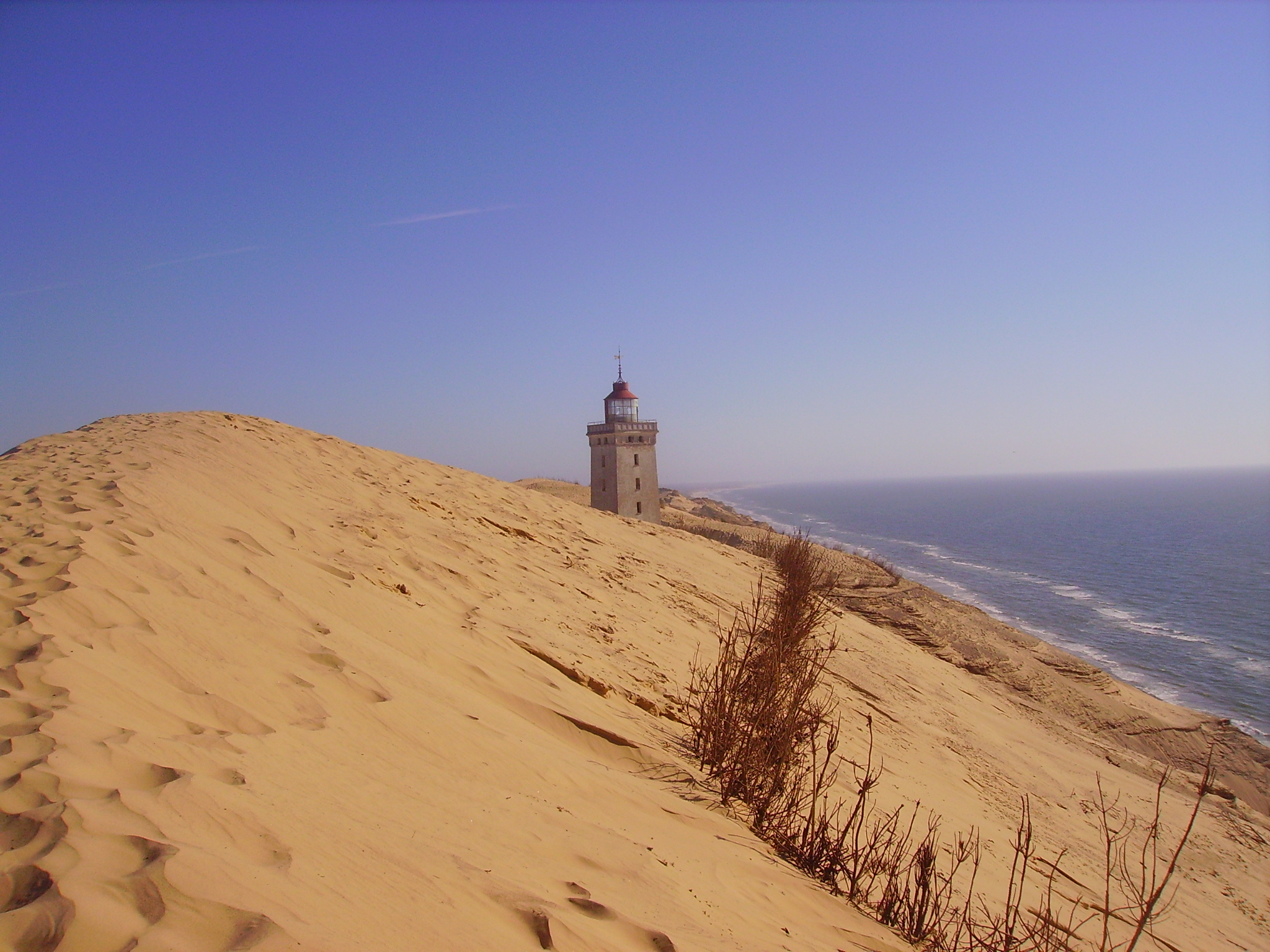 Drifting dune Rubjerg Knude